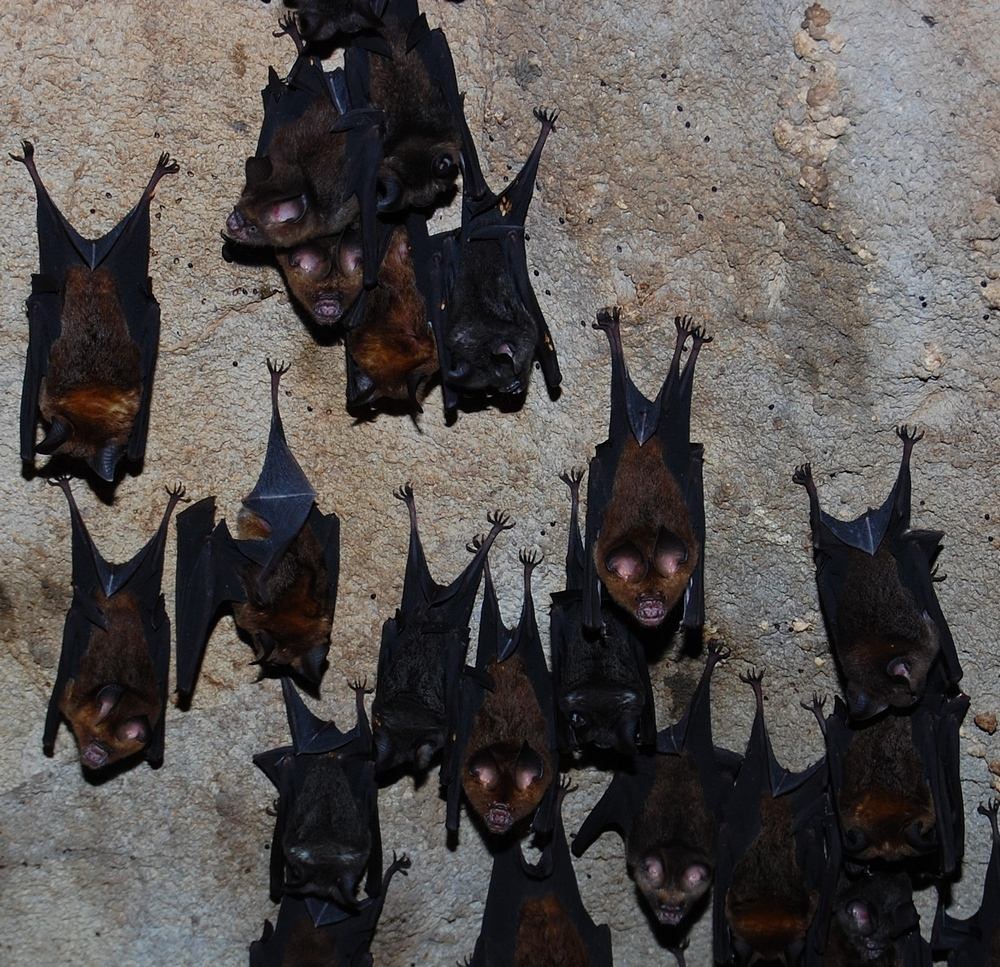 Intermediate Roundleaf Bat (Hipposideros larvatus) roosting flock in a cave. From Lampung, Southern Sumatra.